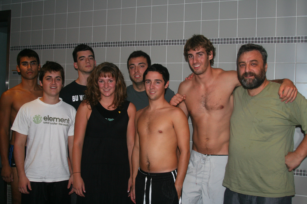 Kiril in SUNY